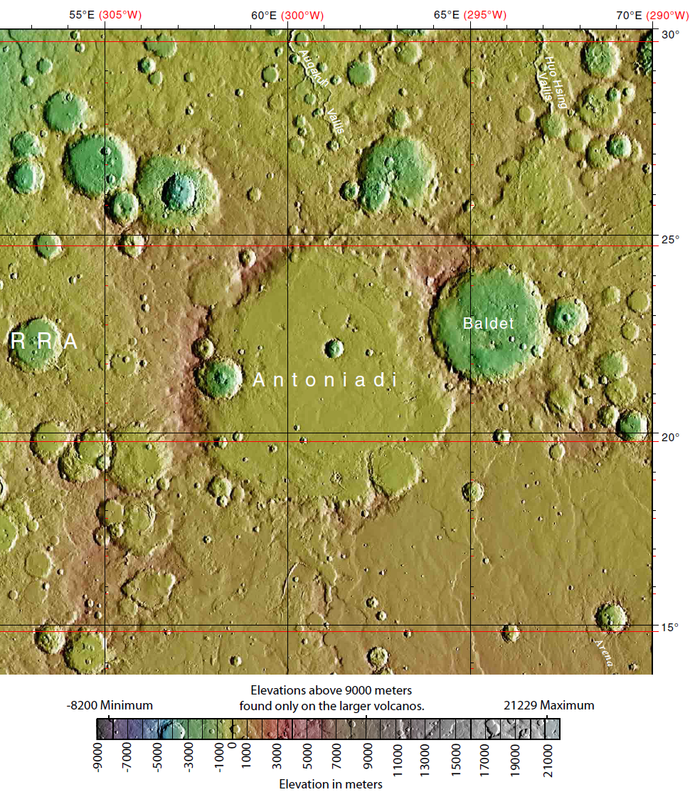 Crater Antoniadi on Mars: hypsometric map